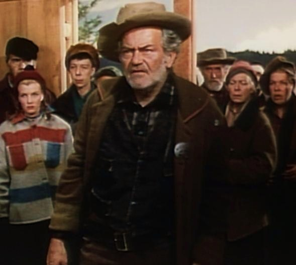 Jay C. Flippen in The Far Country - trailer (cropped screenshot)